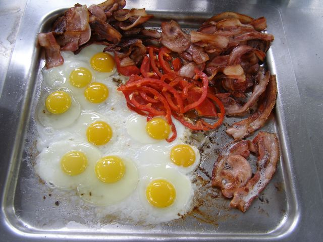 Bacon and Eggs frying on an electric griddle at Jervis Bay, Australia. October 2006. Photo: D.M. Vernon